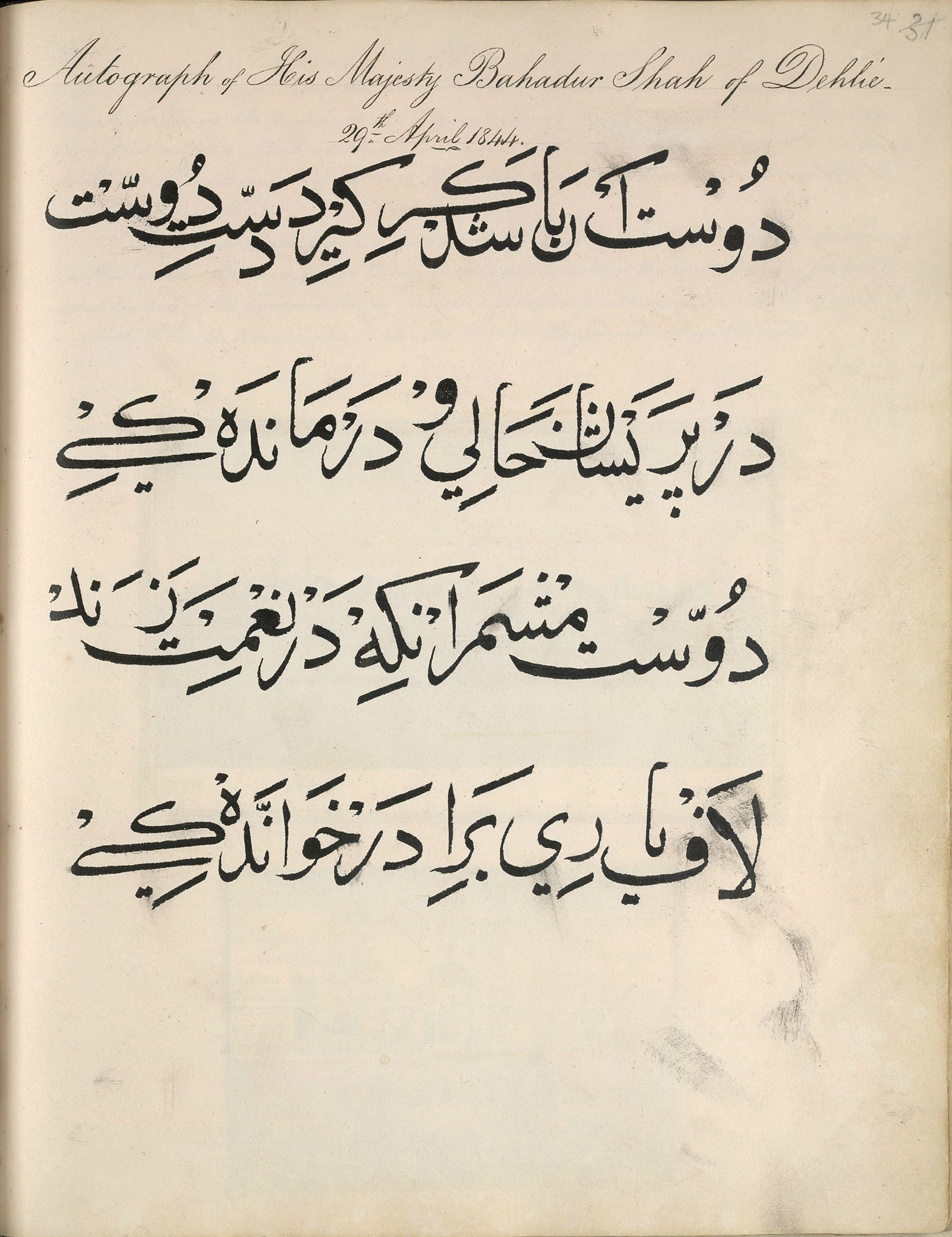 A Persian poem written in Bahadur Shah's hand. It was a sign of friendship to write out a poem in one's own personal calligraphic style to give to a friend. Thomas Metcalfe's note above the poem tells us that Bahadur Shah gave him the poem on 29 April 1844. On the opposite page, Metcalfe wrote an English translation of the poem. From 'Reminiscences of Imperial Delhi’, an album consisting of 89 folios containing approximately 130 paintings of views of the Mughal and pre-Mughal monuments of Delhi, as well as other contemporary material, with an accompanying manuscript text written by Sir Thomas Theophilus Metcalfe (1795-1853), the Governor-General’s Agent at the imperial court. Dost an bashud ke Gheerud dust-i Dost Dur Pureshan hali,o-dur mandigee, Dost mu shoomur an ke dur Neeamut zanud, Laf yeearee o Biradur khandigee. Friend is he, who grasps the hand of Friend, In the midst of trouble and distress, Not they who in prosperity profess Themselves friends, nay are brothers by repute. A Friend is he, who proffers Friendship's hand When care or grief our kindred feelings claim Not he whom prosperous days alone command And is a Friend or Brother but in name. Autograph of His Majesty Bahadur Shah of Delhi 29th April 1844. The well-known Persian verse transcribed and translated opposite. This file has been provided by the British Library from its digital collections. This tag does not indicate the copyright status of the attached work. A normal copyright tag is still required. See Commons:Licensing.